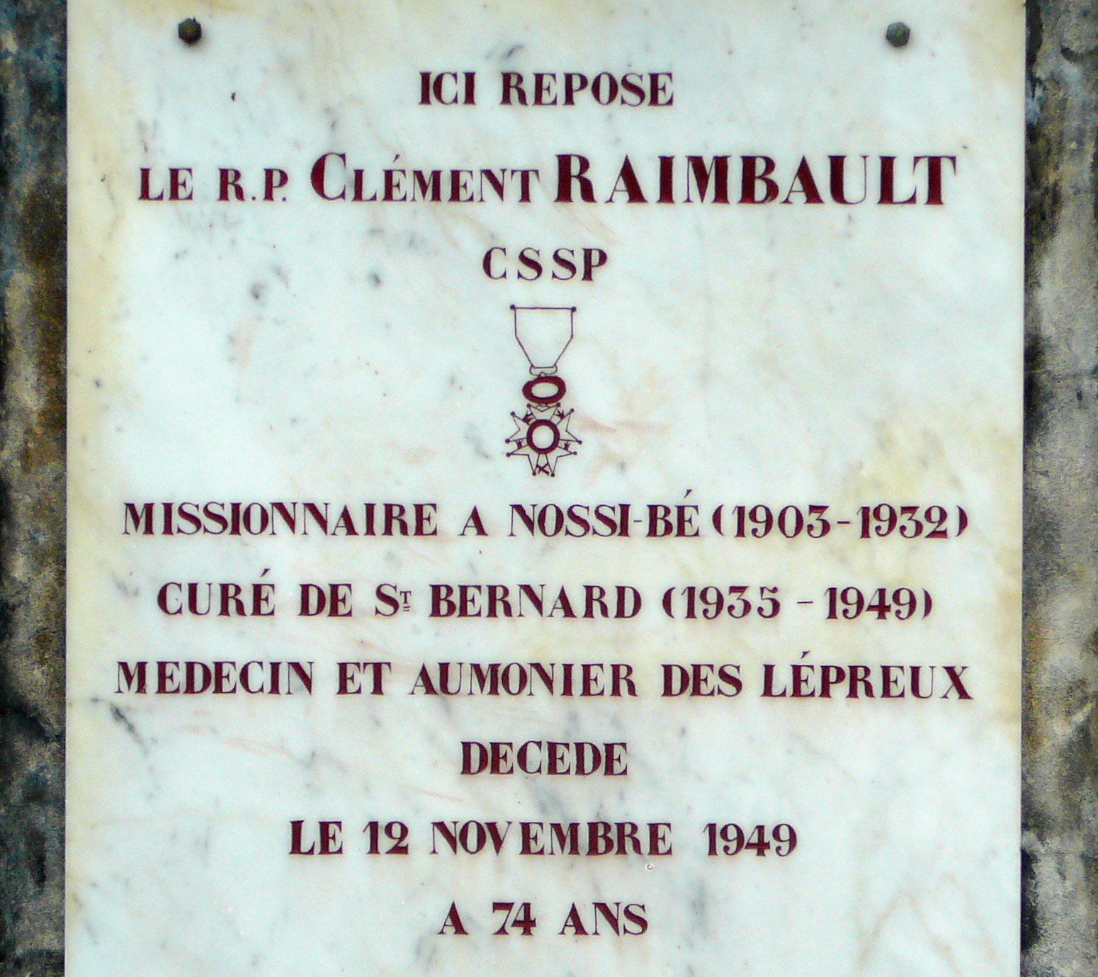 Father Clement Raimbault epitaph